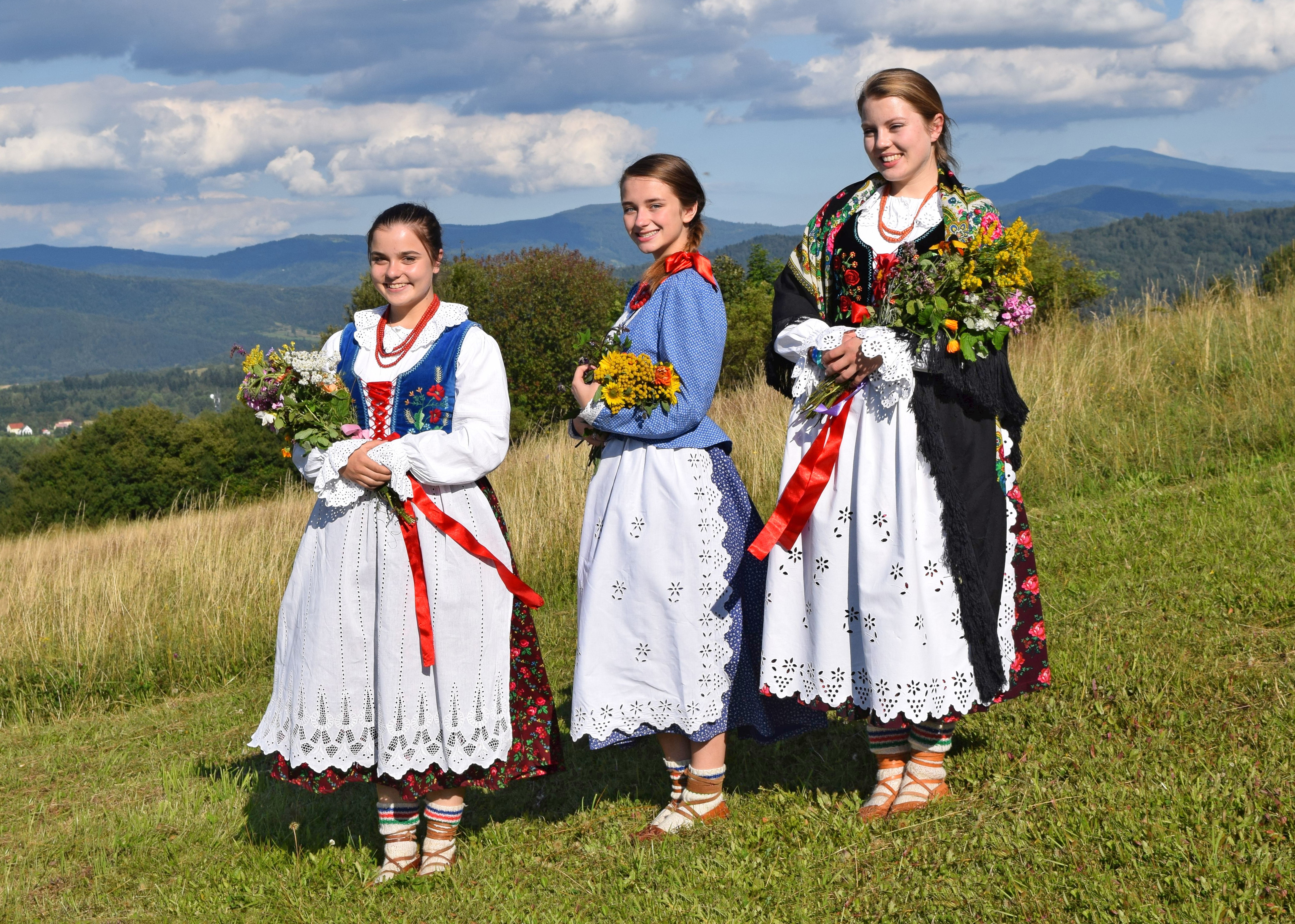 Members of "Grojcowianie" folklore group in Żywiec Beskids clothing during the festival of the Assumption of the Holy Mary in Juszczyna, 2016